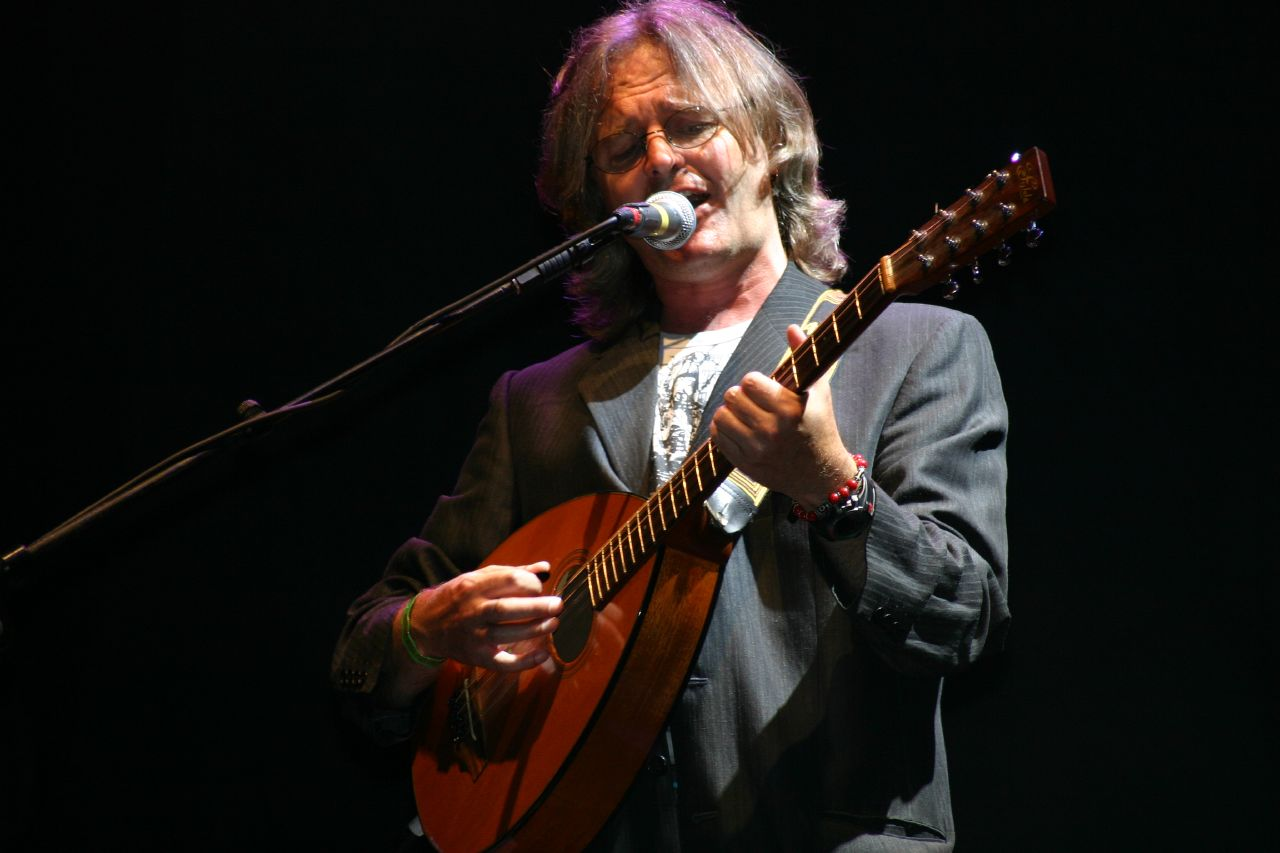 Chris Leslie Fairport Convention at the Cropredy Festival, Oxfordshire, 14 August 2004